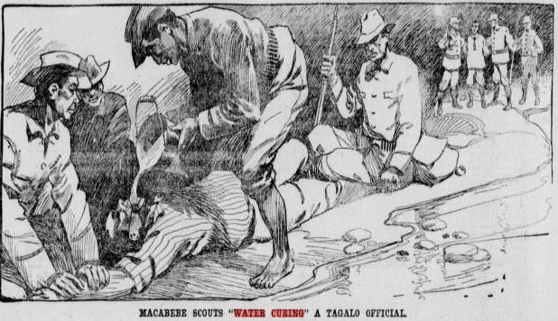 Caption: Macabebe Scouts "water curing" a taglo officialThe Macabebe Scouts were a native Filipino force of the US Army during the Spanish–American War Tagalo is the term for insurgent or independence advocate during the Spanish–American War, carried over from the Spanish forces use of the term in the Philippine Revolution (see also: Tagalog people)